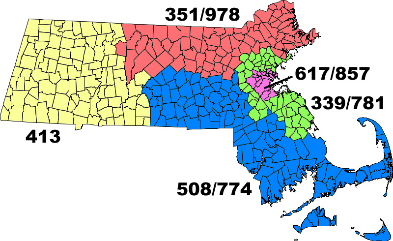 I made this myself for wikipedia